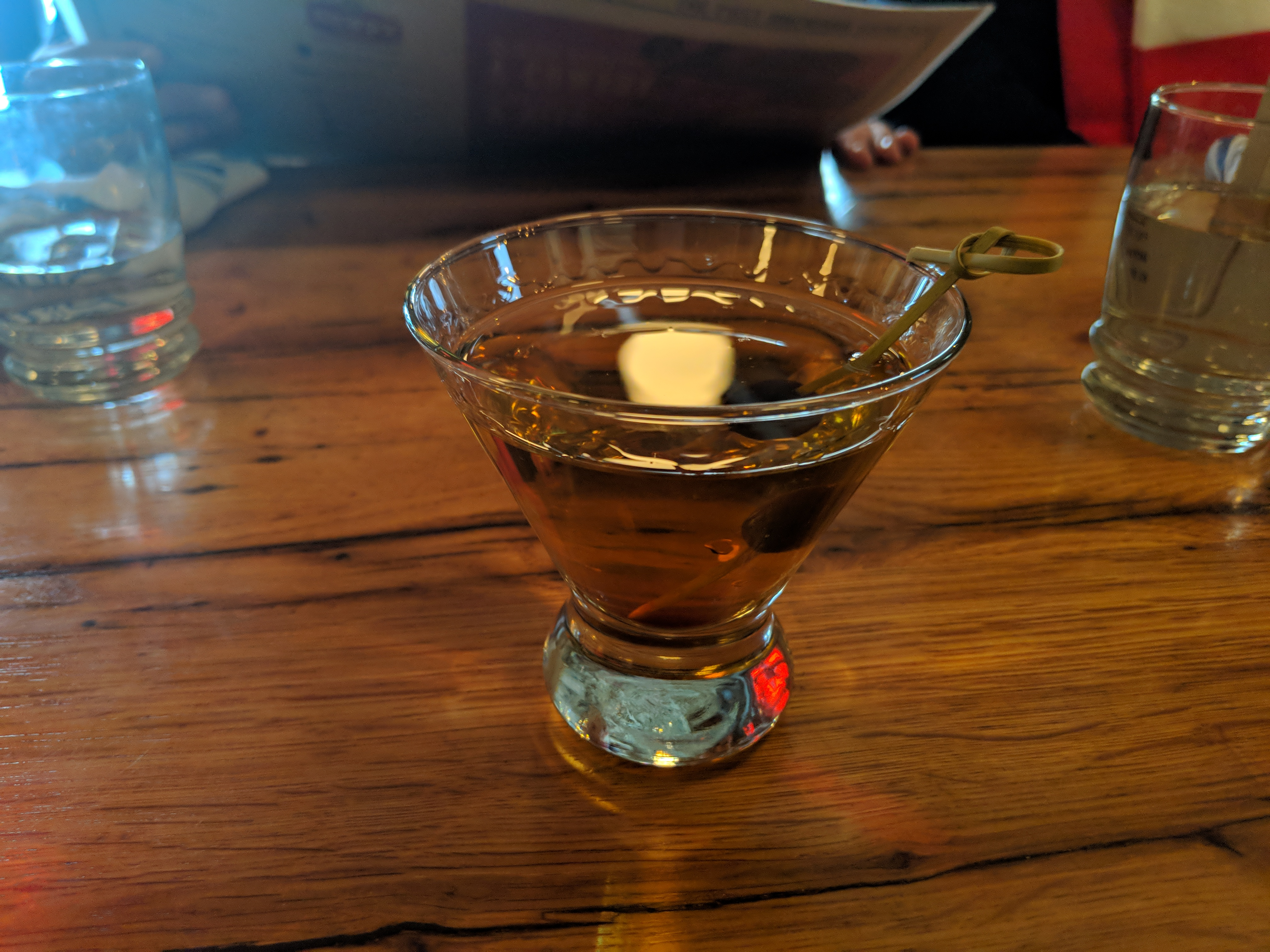 Brooklyn cocktail, The Post Brewing Co, Boulder Colorado